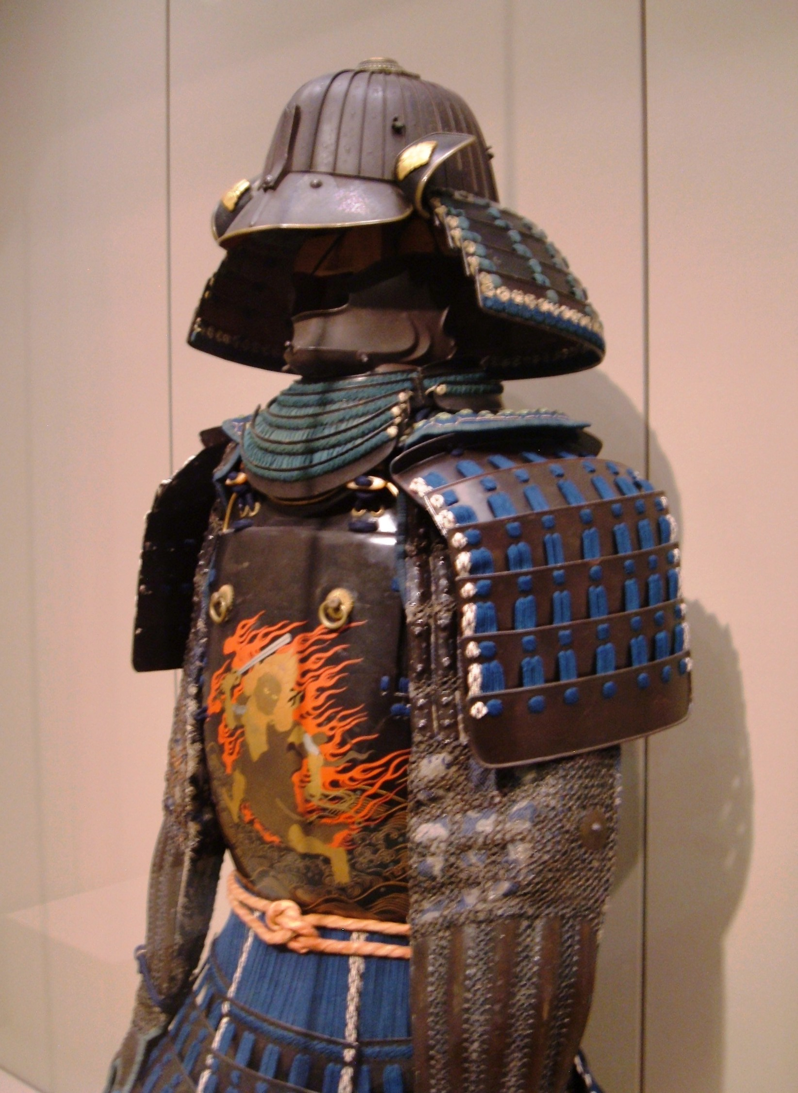 Samurai armor, tosei gusoku type, (1615-1868) on display at the Asian Art Museum in San Francisco, California. Object ID: B74M7